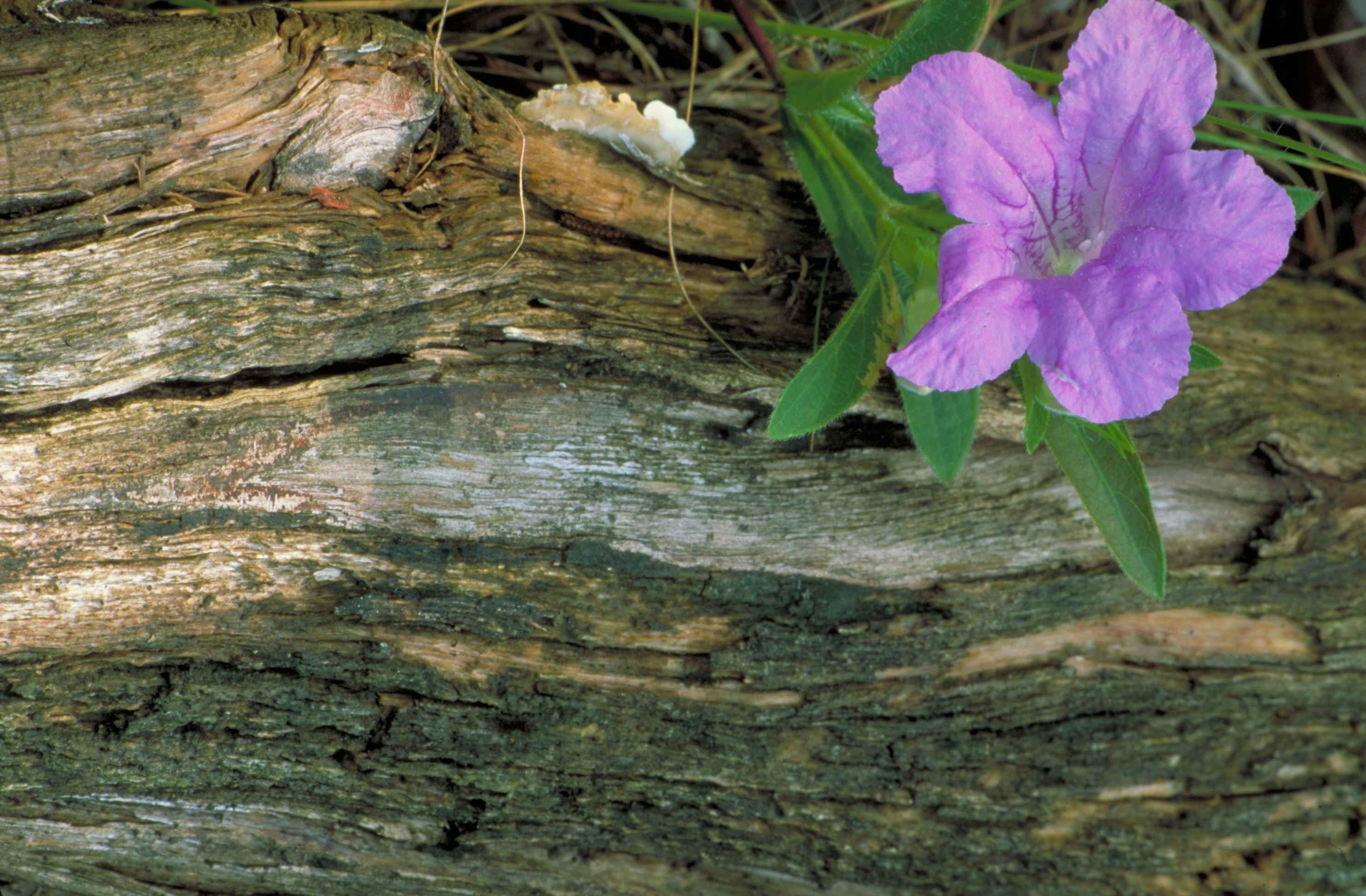 Image title: A purple flower of wild petunia ruellia caroliniensis by a log Image from Public domain images website